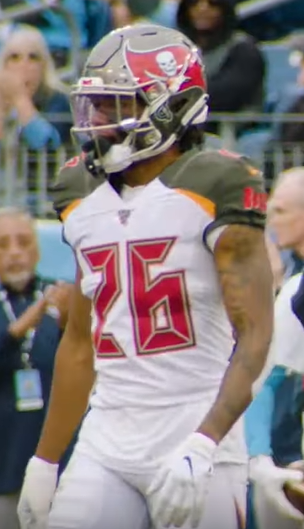 Sean Murphy Bunting 2019. Image from video Titans Mic'd Up vs. Bucs (Week 8) | Sounds of the Gamee, ~ 02:17.